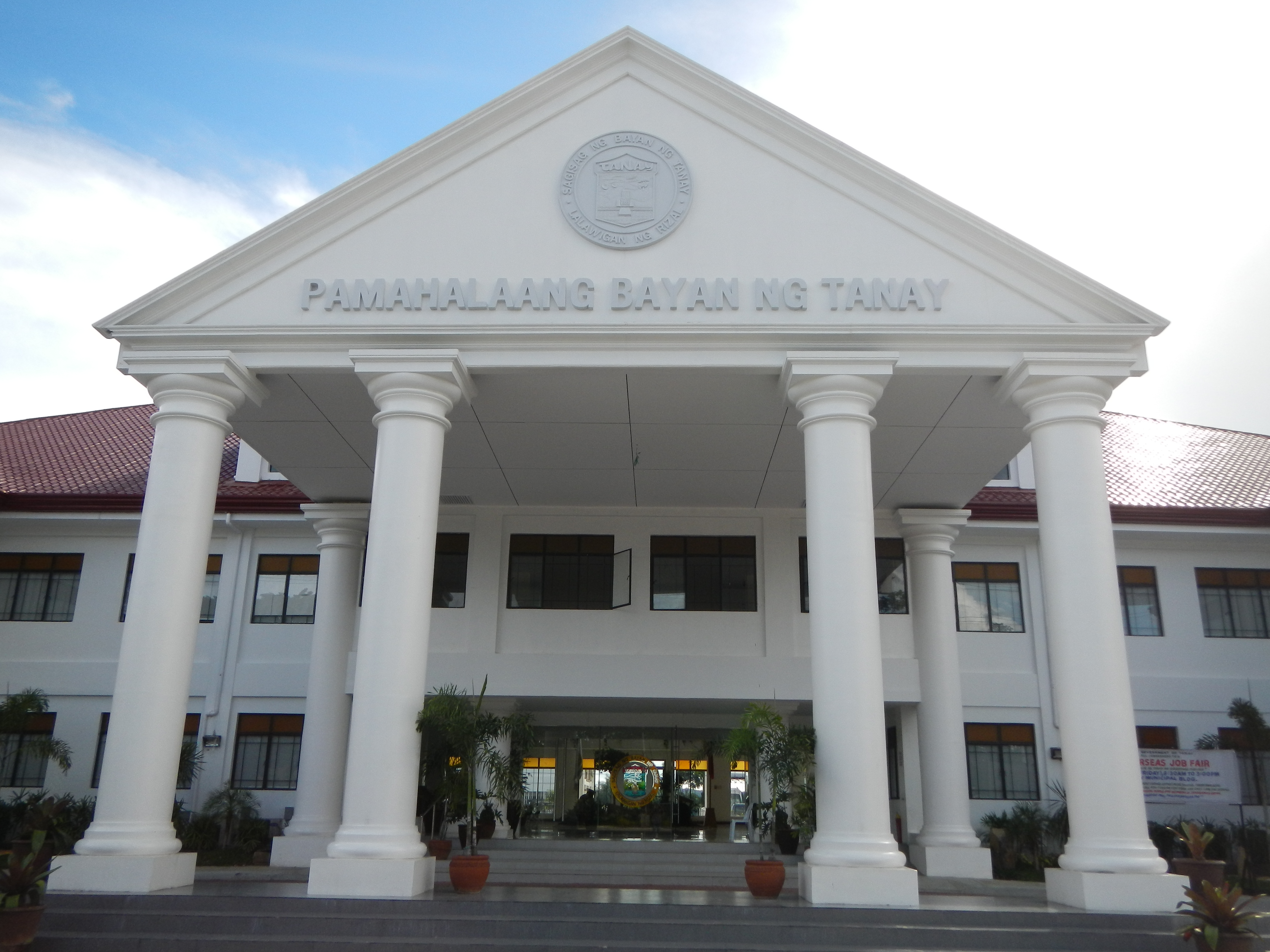 Tanay, Rizal Municipal Hall inaugurated on March 22, 2013